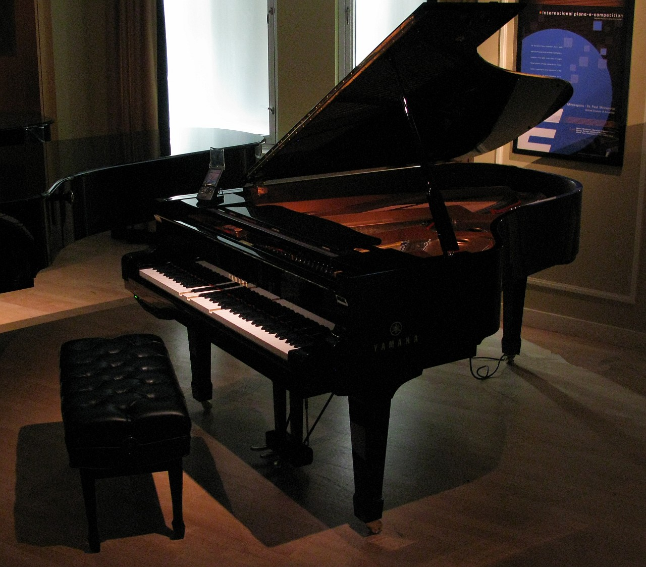 A Yamaha Disklavier Model DC6 Mark IV Pro is shown in action.